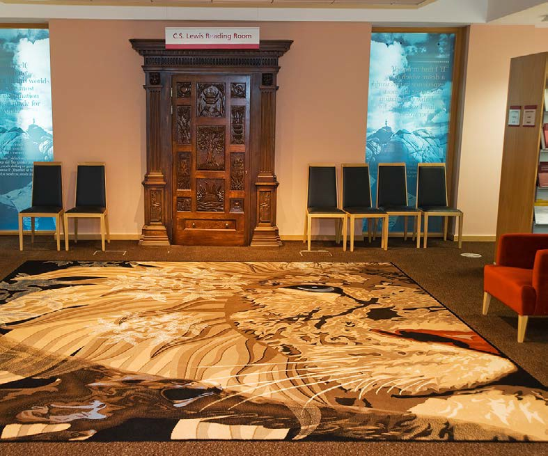 CS Lewis Reading Room